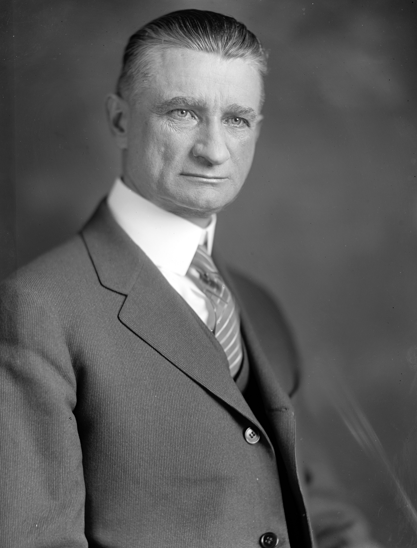 Bolivar E. Kemp, US Representative from Louisiana